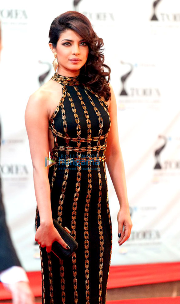 Times Of India Film Awards 2013 (TOIFA)